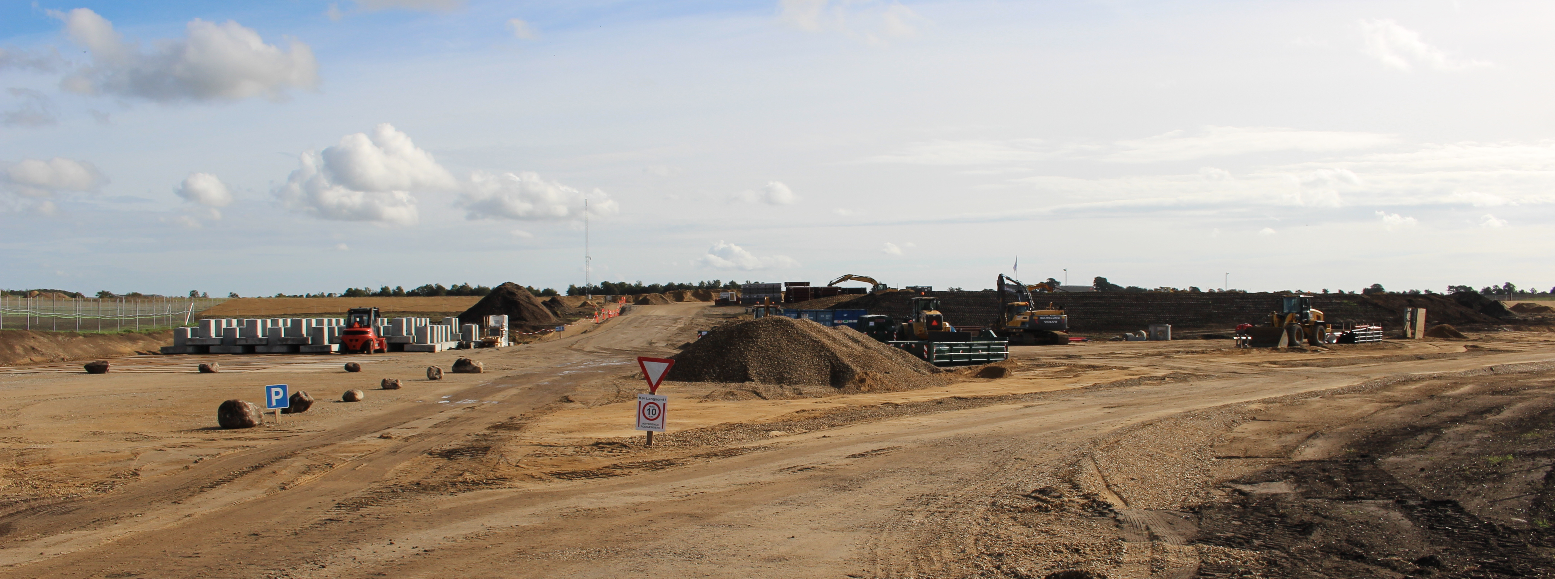 Construction at Apple's Foulum data center. A panorama with a view towards east.